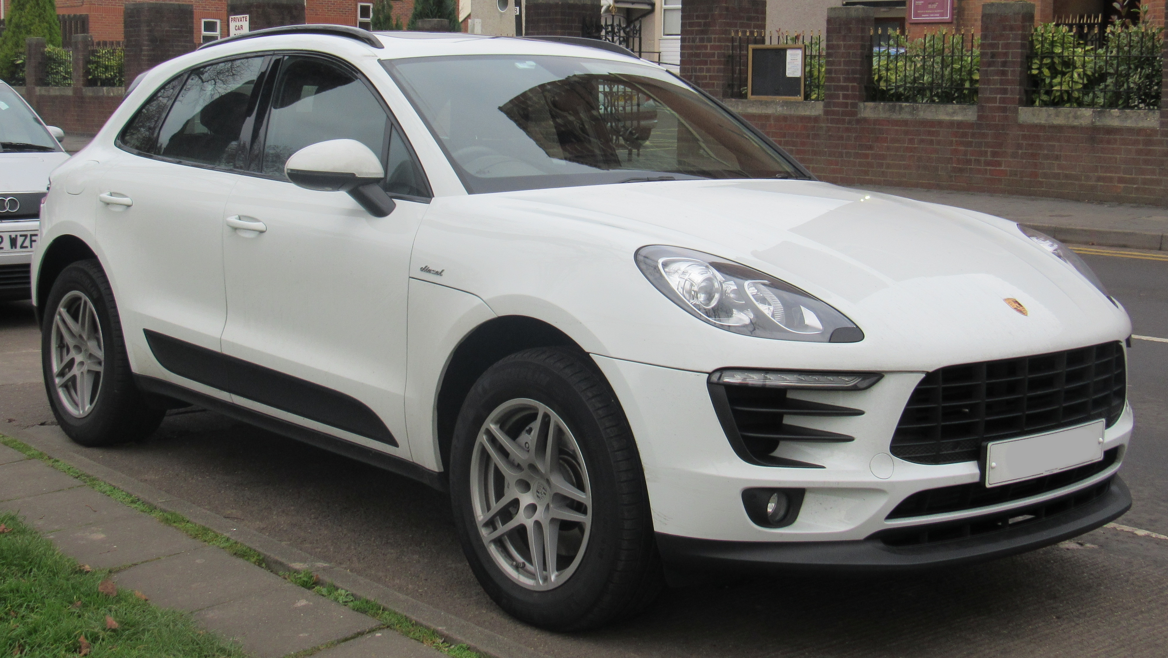 2017 Porsche Macan S-A 3.0 Taken in Leamington Spa